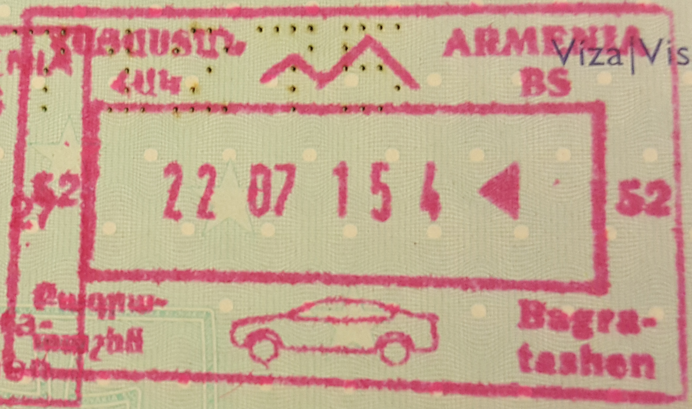 Armenian entry stamp from the Bagratashen-Sadakhlo land border crossing with Georgia.